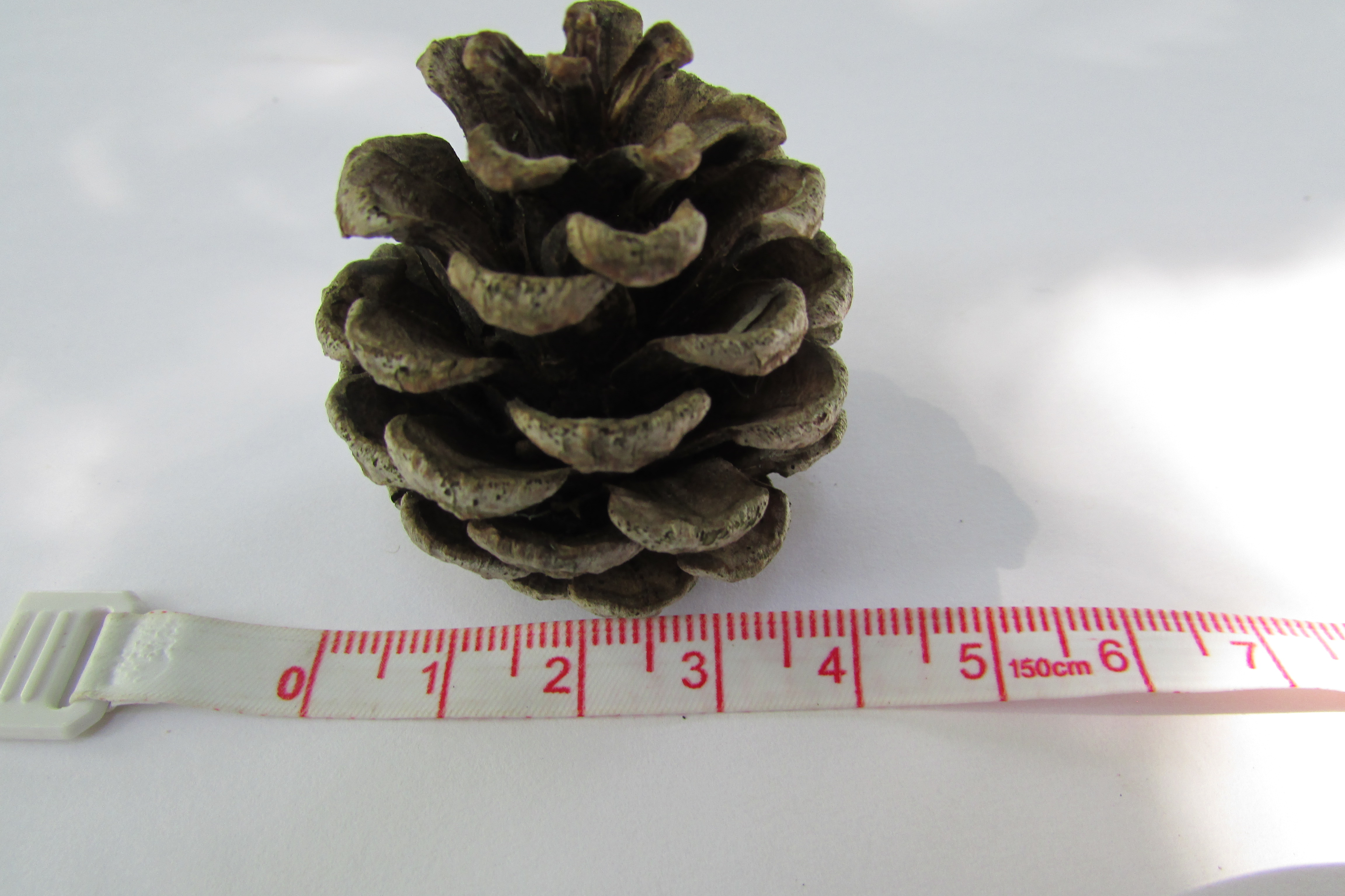 Red Pine Pinus resinosa cones are not serotinous, persistenting on the tree for several years; 1 1/2 to 2 inches long, curved, light brown but graying with age. Evergreen needles, 12-18 cm long, two twisted, divergent needles per fascicle.